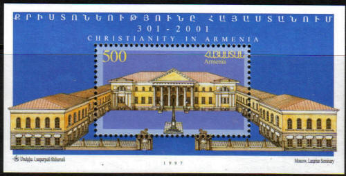 Stamp of Armenia